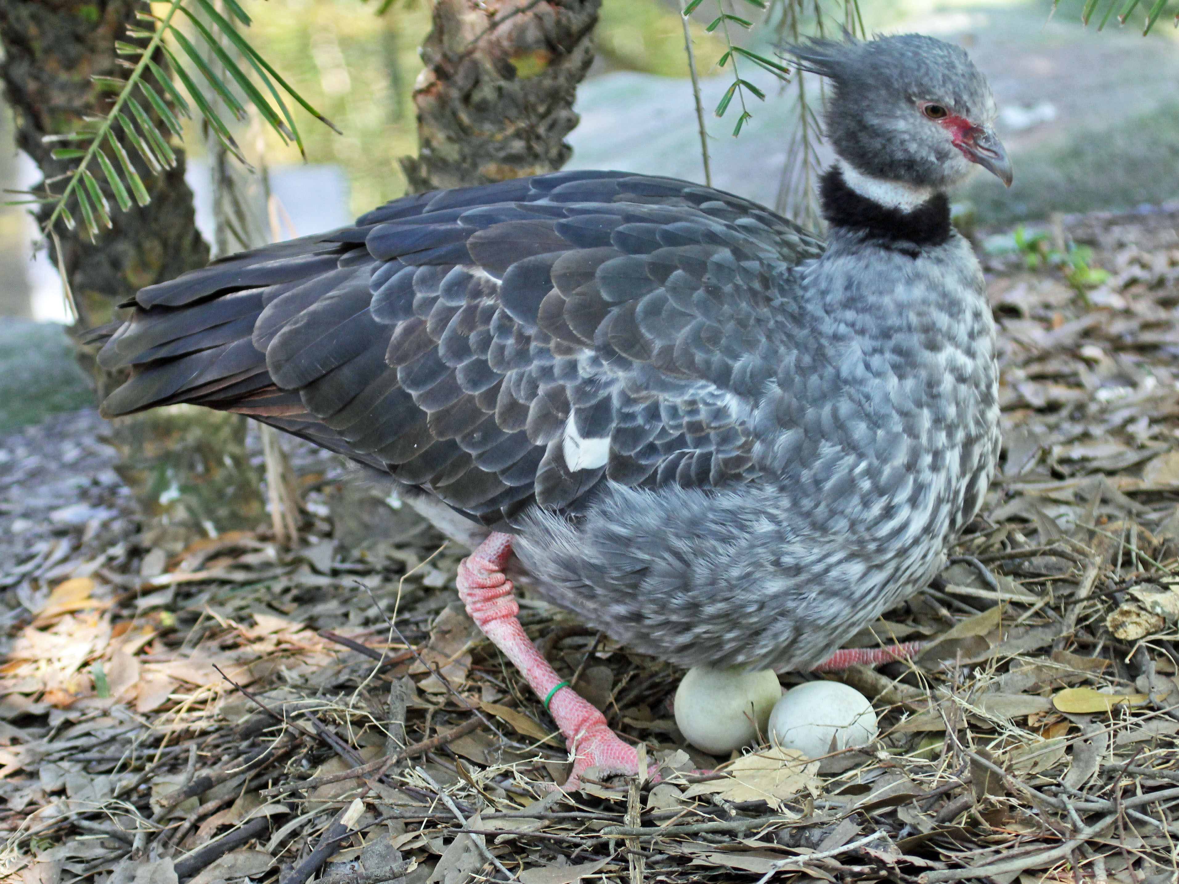 Southern Screamer (Chauna torquata) - Jacksonville Zoo, Florida. She is settling onto her eggs.